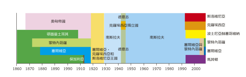 History of Yugoslavia since 1860 (Chinese Edition)